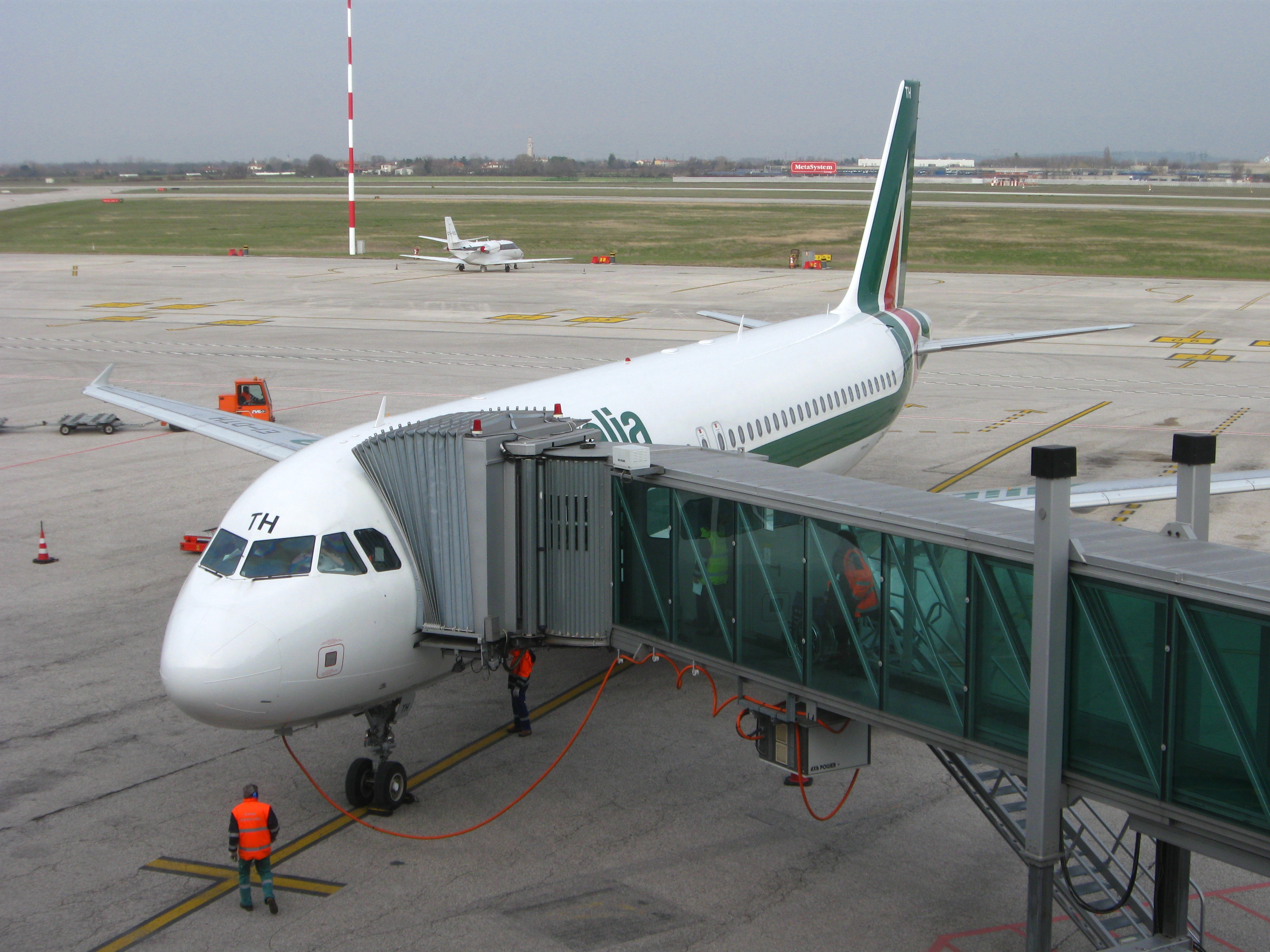 Alitalia plane at Ronchi-Trieste airport.